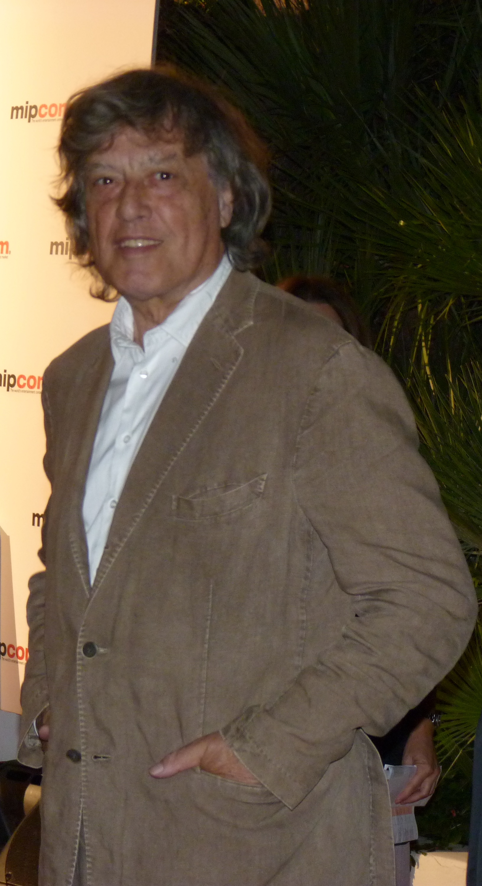 Tom Stoppard at the 2011 MIPCOM, in Cannes.